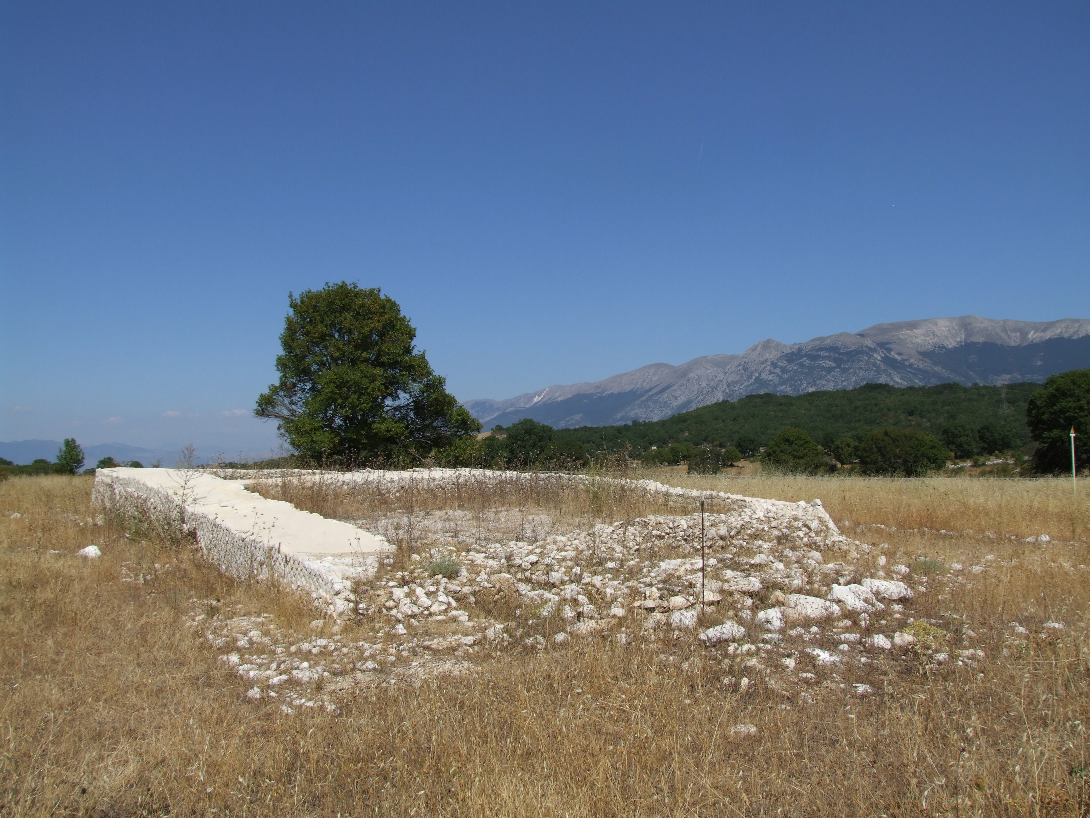 The roman temple in Ocriticum